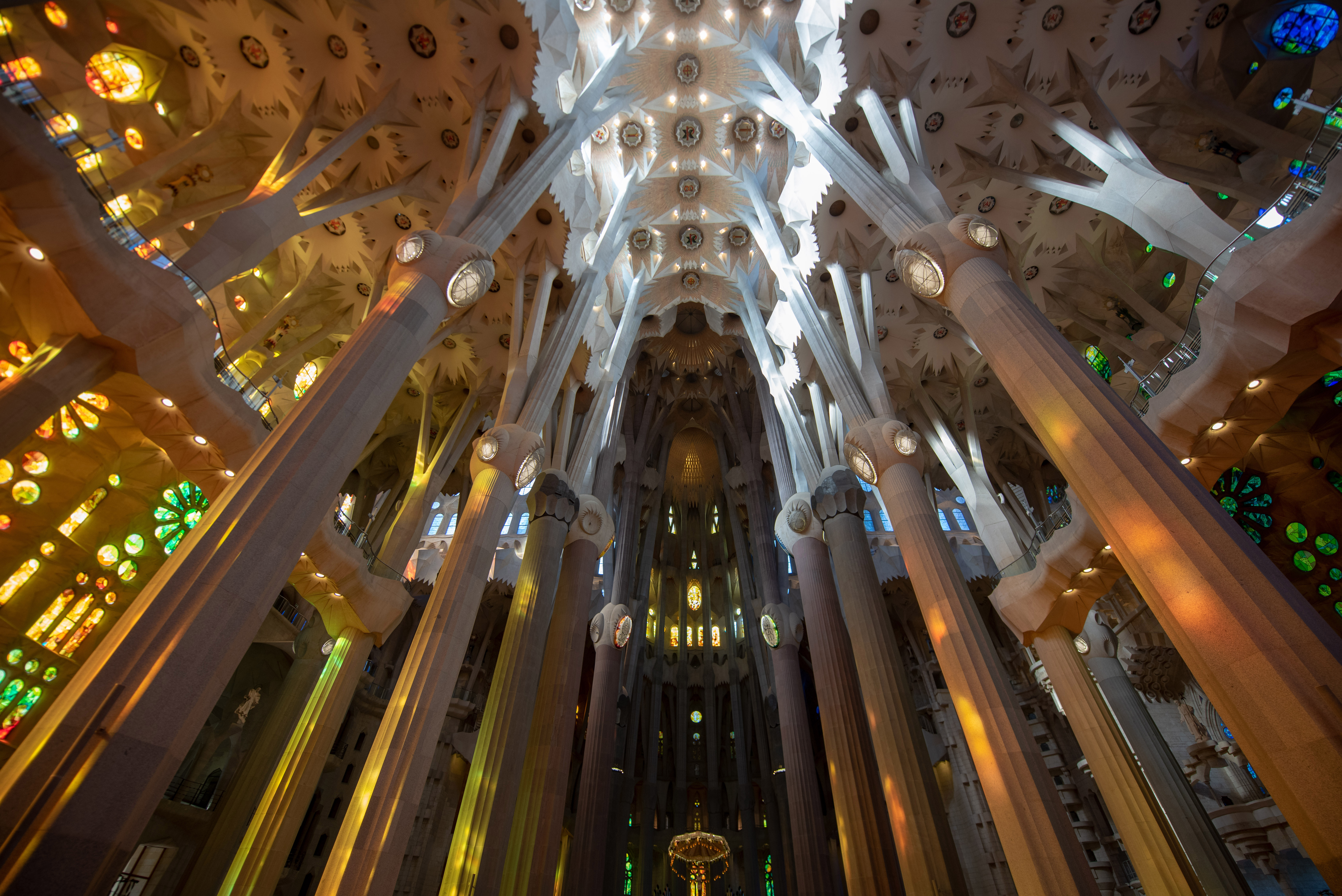 Sagrada Família, Columns